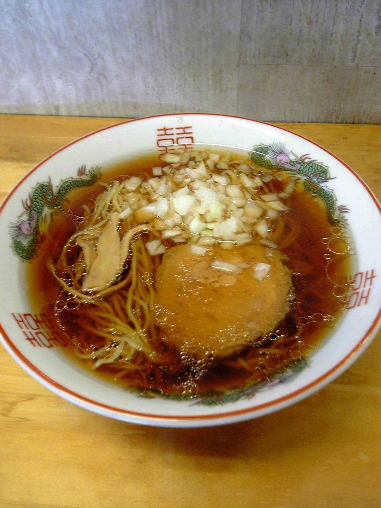 Hachiōji Ramen, taken by original uploader on March 18th, 2006.